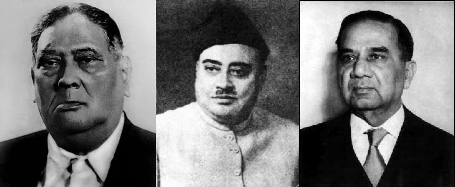 The three leading statesmen of Bengal during the first half of the 20th-century- A K Fazlul Huq, Khwaja Nazimuddin and H S Suhrawardy. All three served as the Prime Minister of Bengal in British India. Huq was the founder of the Krishak Praja Party and served as Chief Minister and Governor of East Pakistan. Suhrawardy, the leader of the Awami League, served as the fifth Prime Minister of Pakistan. Nazimuddin, a leader of the Muslim League, served as the first Chief Minister of East Bengal and as the second Governor-General and second Prime Minister of Pakistan